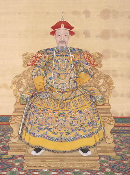 Middle-aged Kangxi Emperor, age about 40-50.